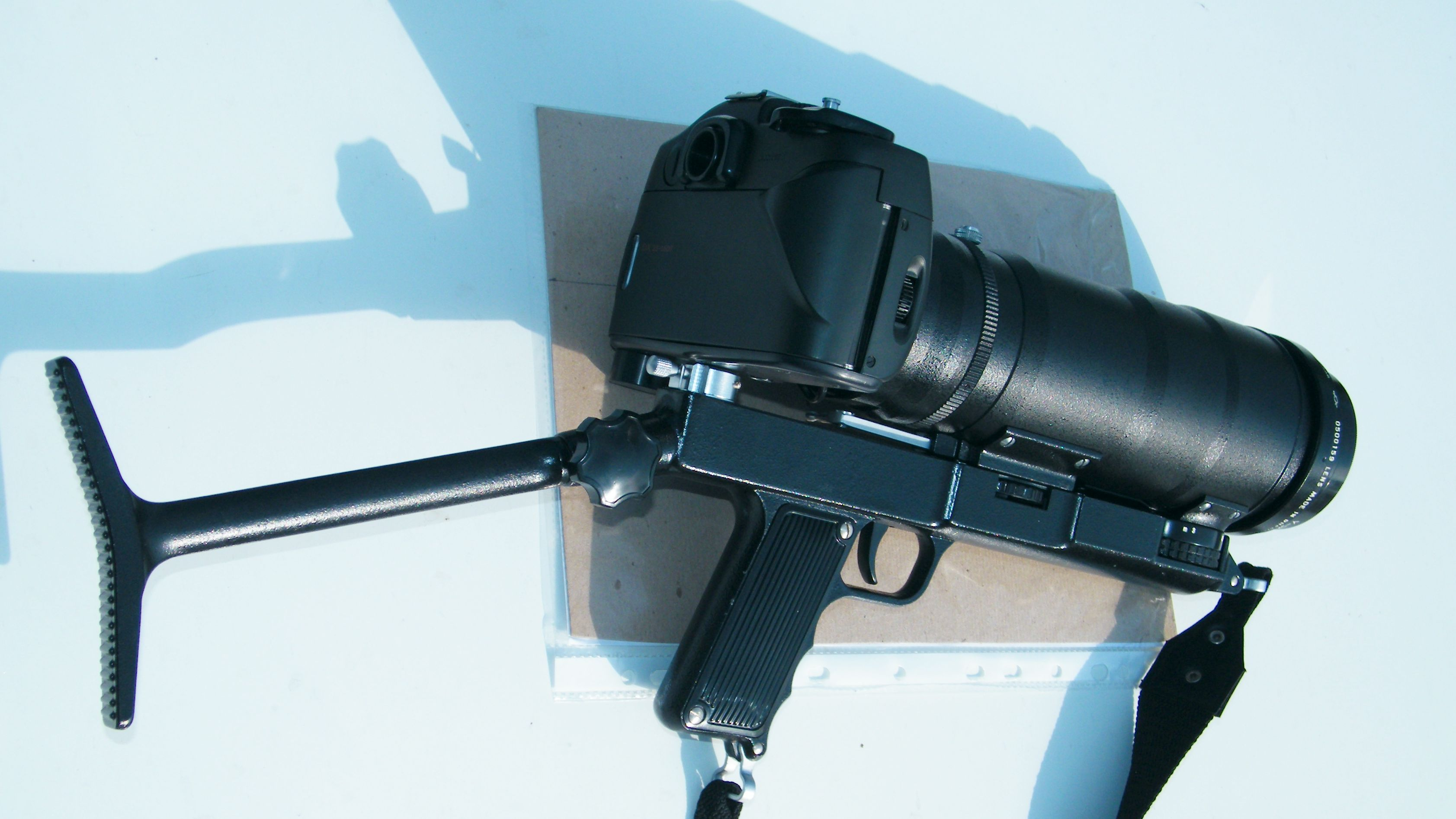 Фоторужье Зенит-412C